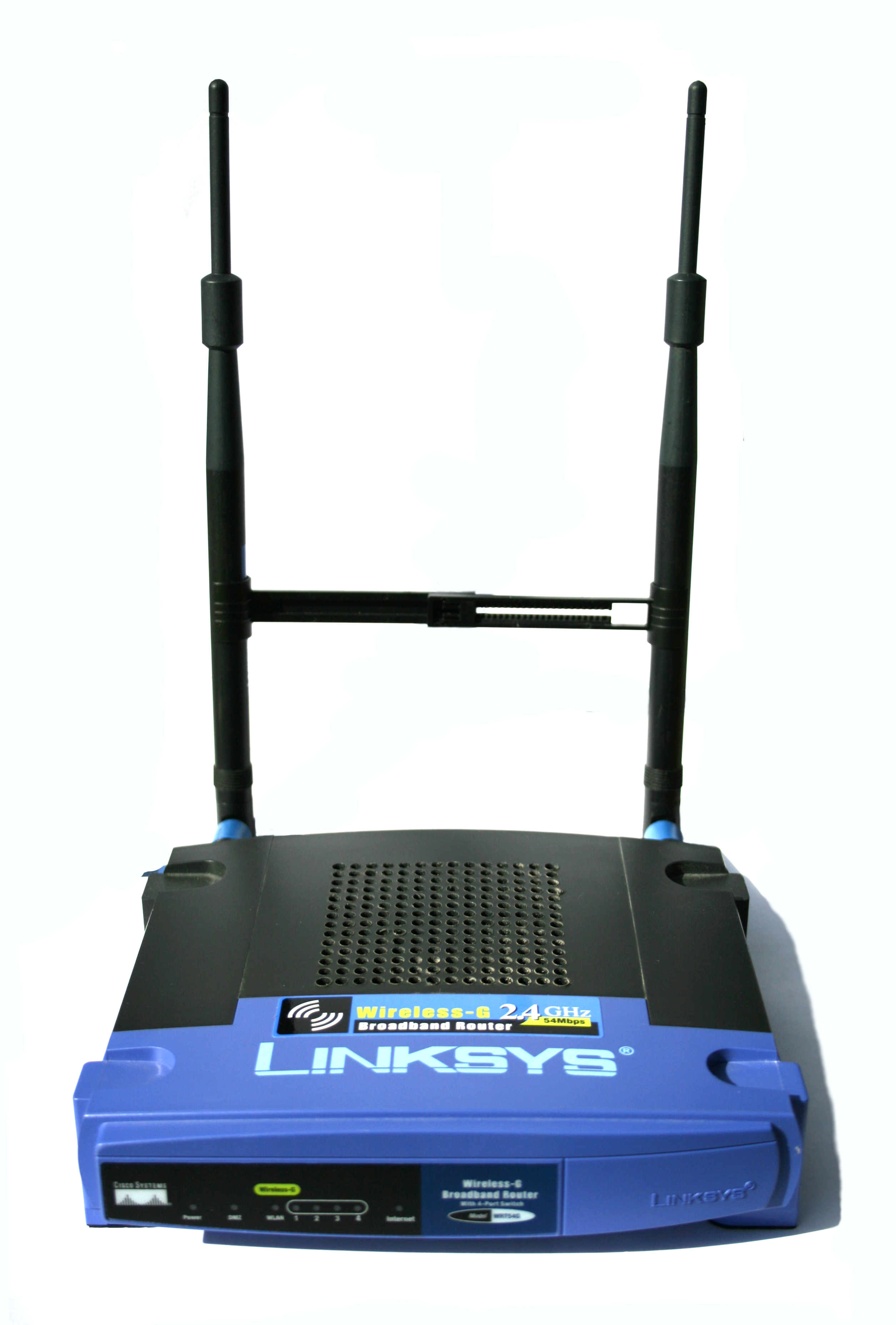 A photo of a version 2 WRT54G Linksys router with upgraded 7 dBi antennas. The router has been modified to have larger cooling holes.